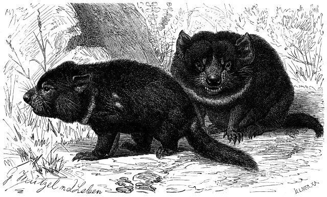 Tasmanian Devil from Brehms Thierleben.